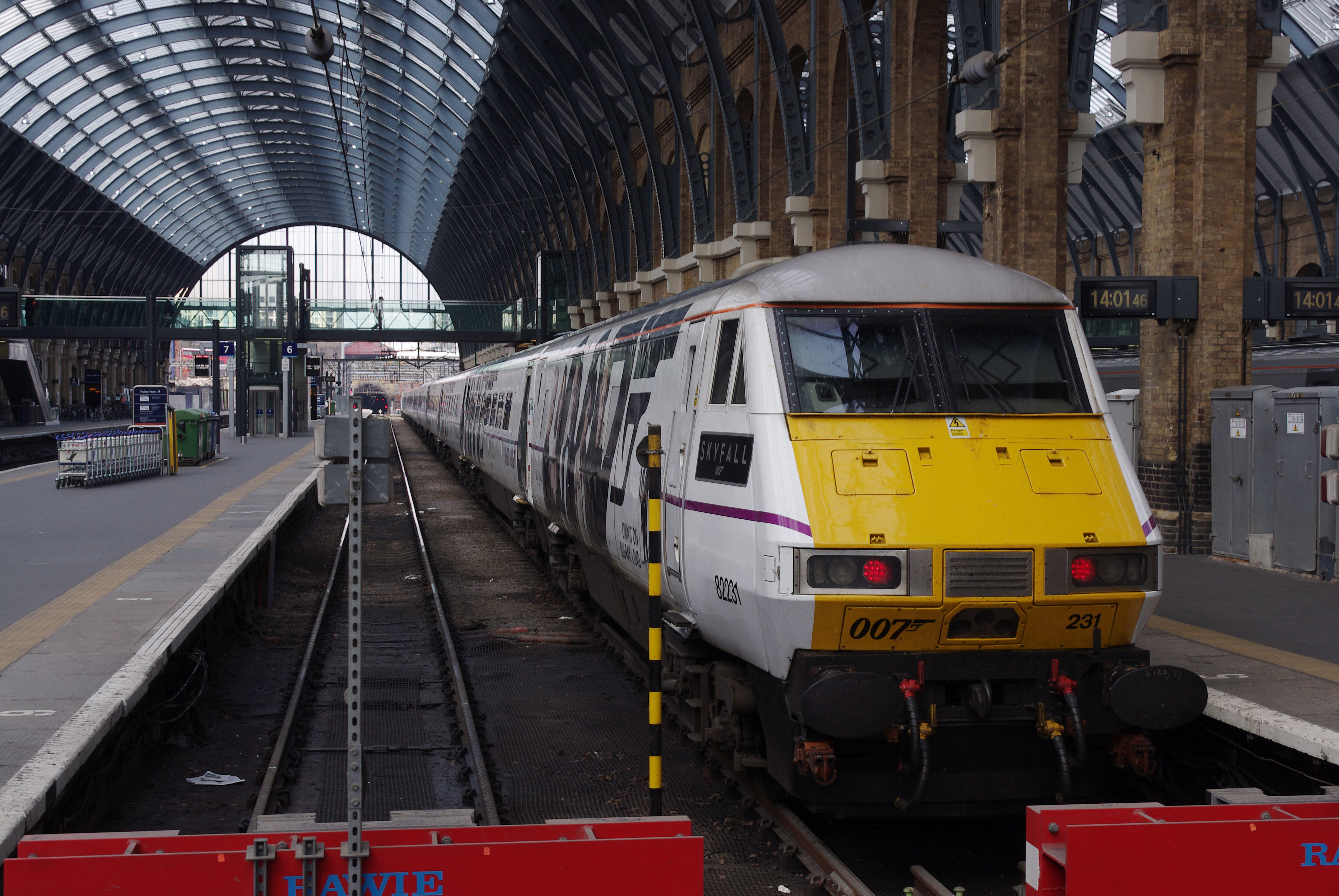 East Coast's Skyfall Mk4 rake stands at King's Cross railway station.